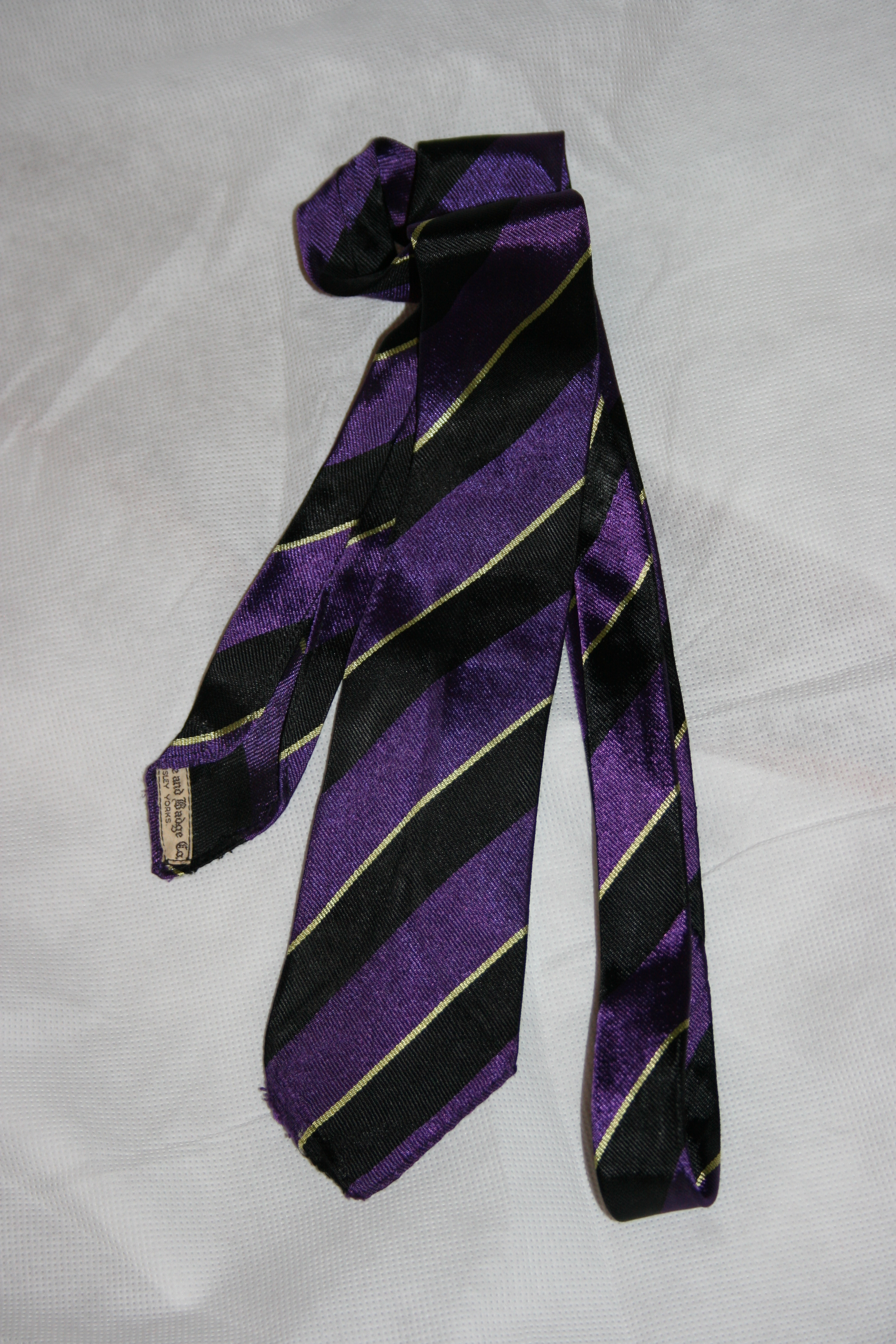 Cricket club tie from Lewes priory cricket club, Sussex, England (1960s)